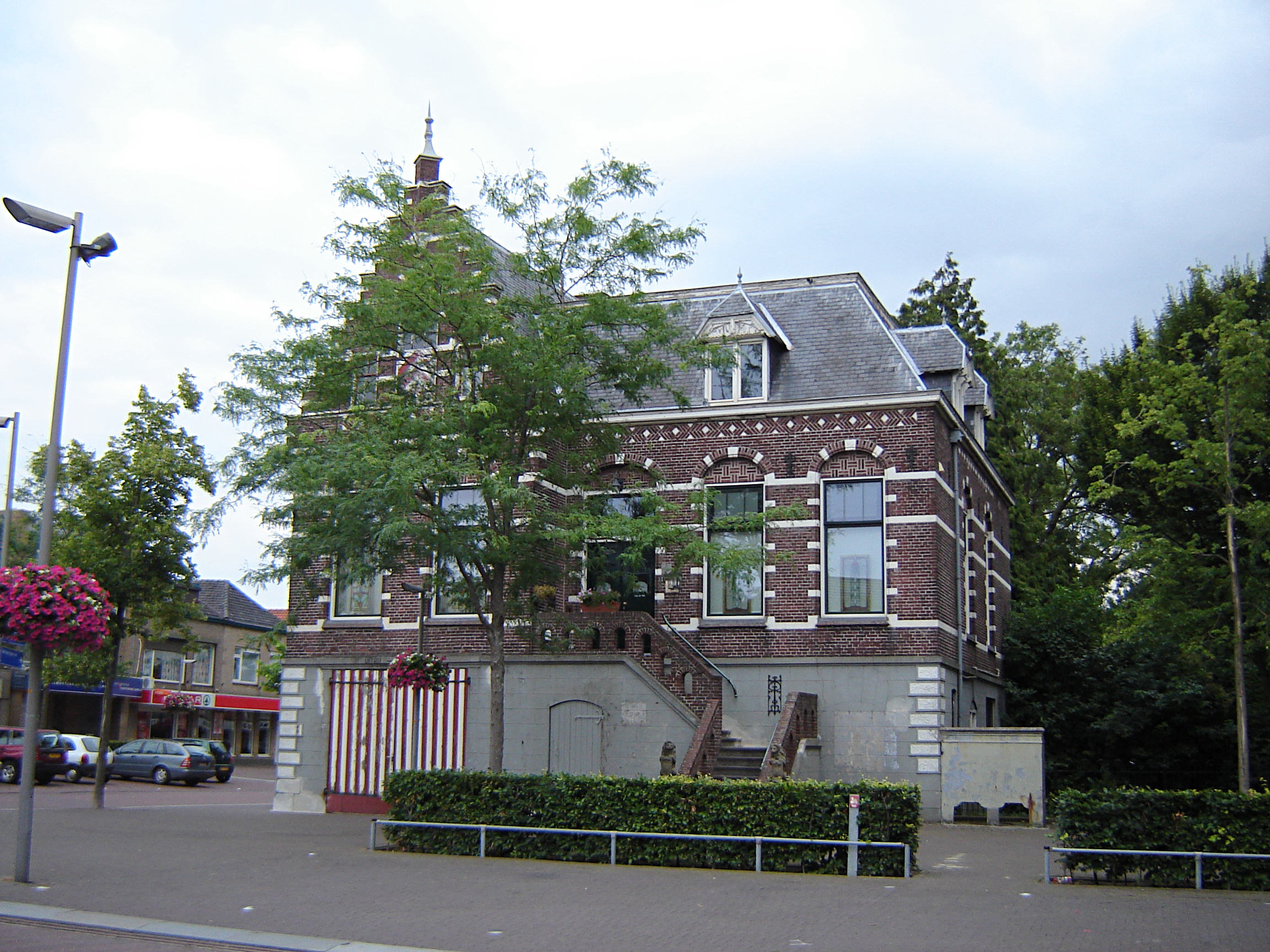 Town hall in Zaamslag. Zaamslag, Terneuzen, Zeeland, Netherlands.